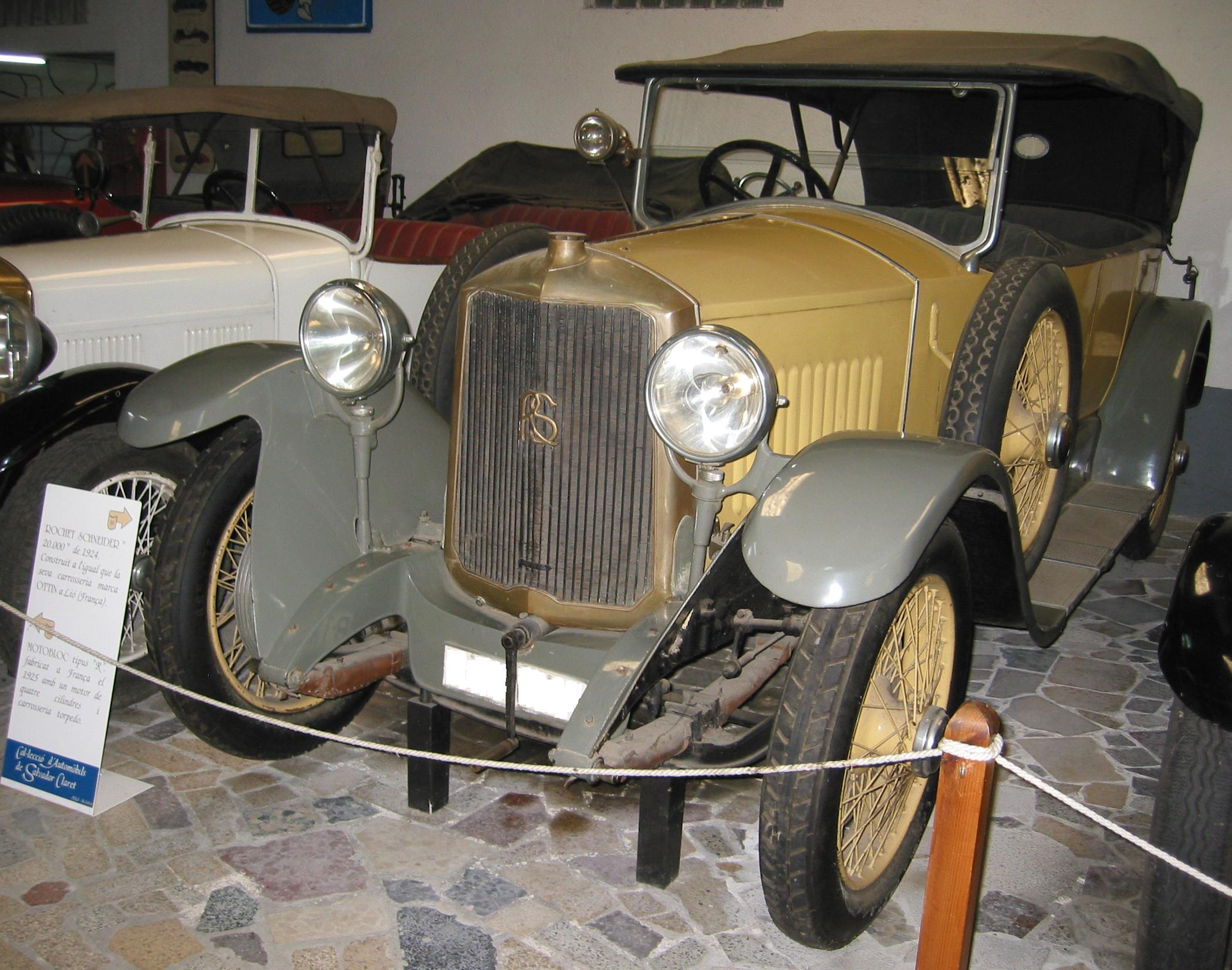 Rochet-Schneider 2000 1924 (Country of origin: France)